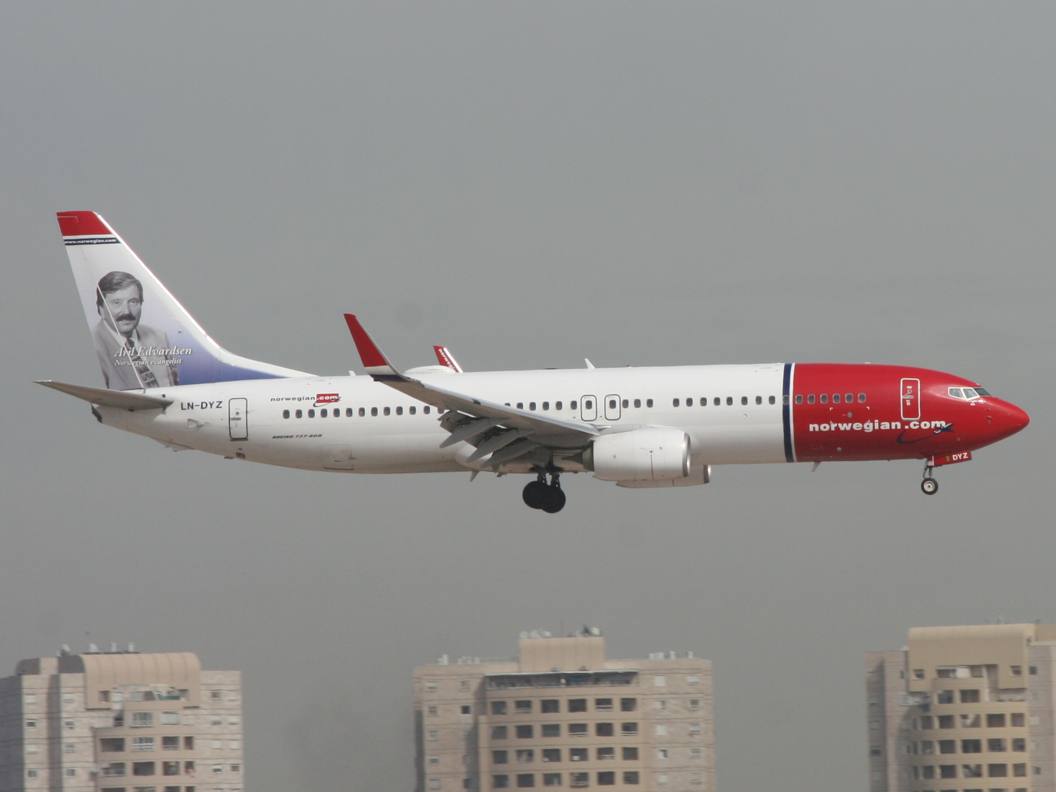 At Ben Gurion International airport.